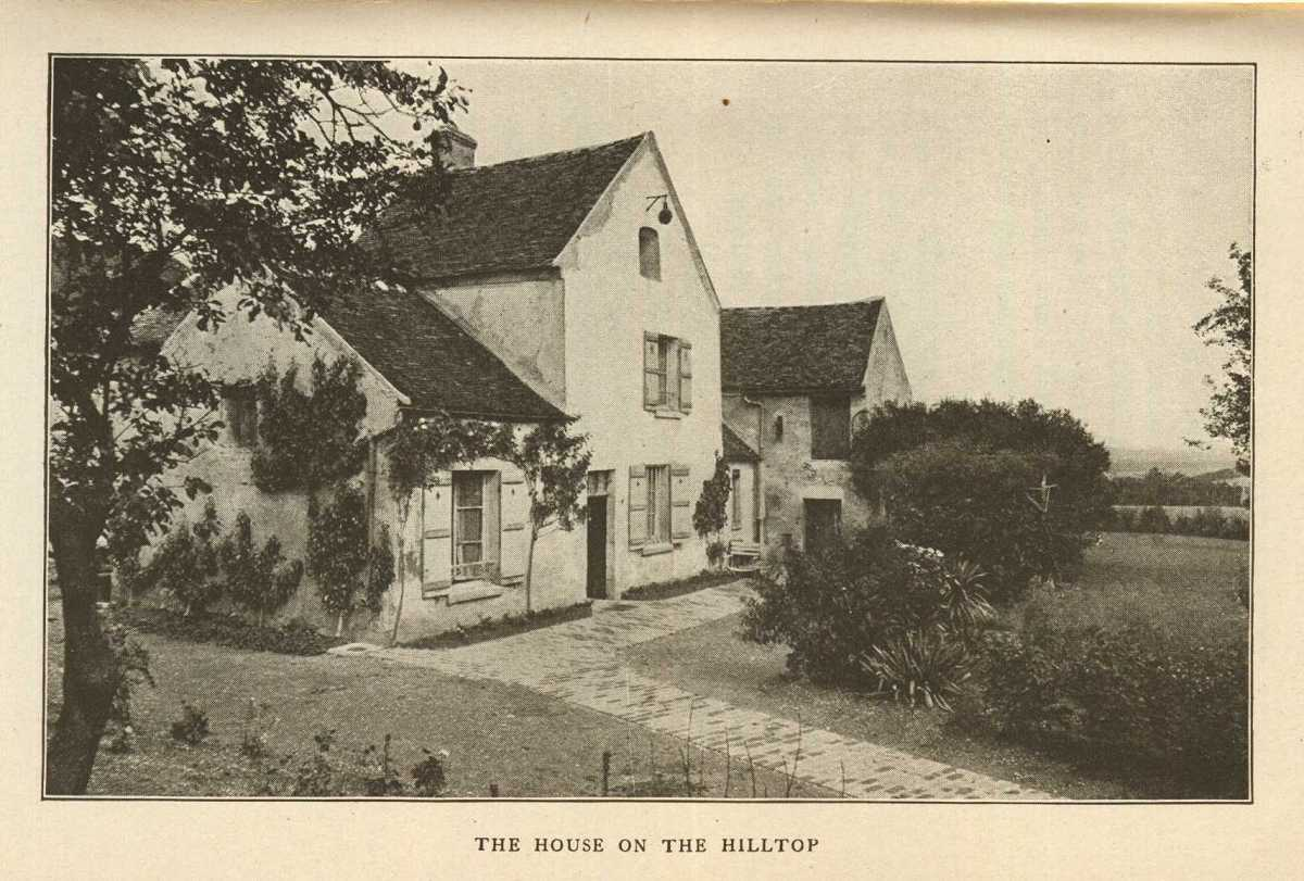 Photograph of "The House on the Hilltop" from Mildred Aldrich's 1915 book Hilltop on the Marne